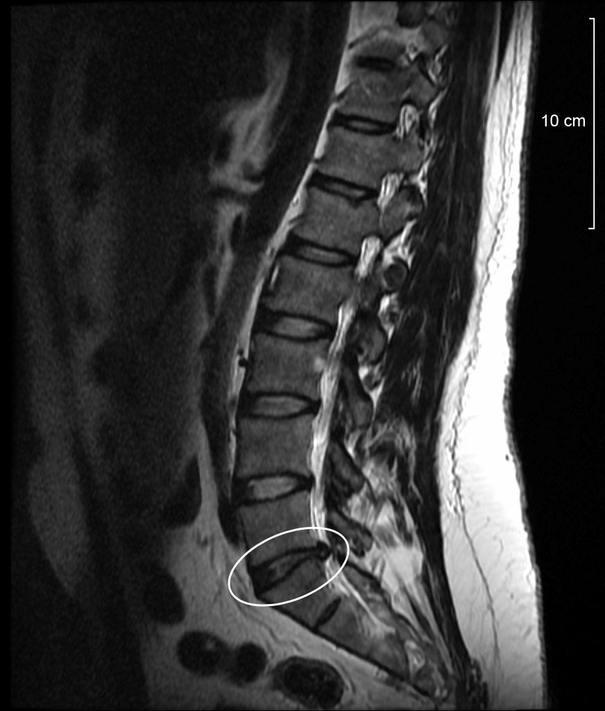 MRI (T2-image) of a spinal disc protrusion in the left lateral recess, at the L5 level compressing the left central nerve root. Compared to a disc extrusion the still existing contrast in the disc indicates that no fluid has been extracted and thus the general structure of the disc is still intact. This represents a pre-stage of a spinal disc herniation if the pressure on the disc is not lowered by improving the muscle structure of the back.